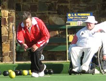 .au Tournament.